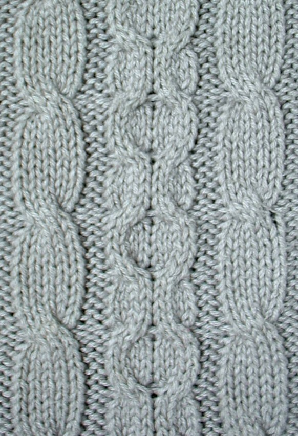 Cable pattern from a flat knitting machine